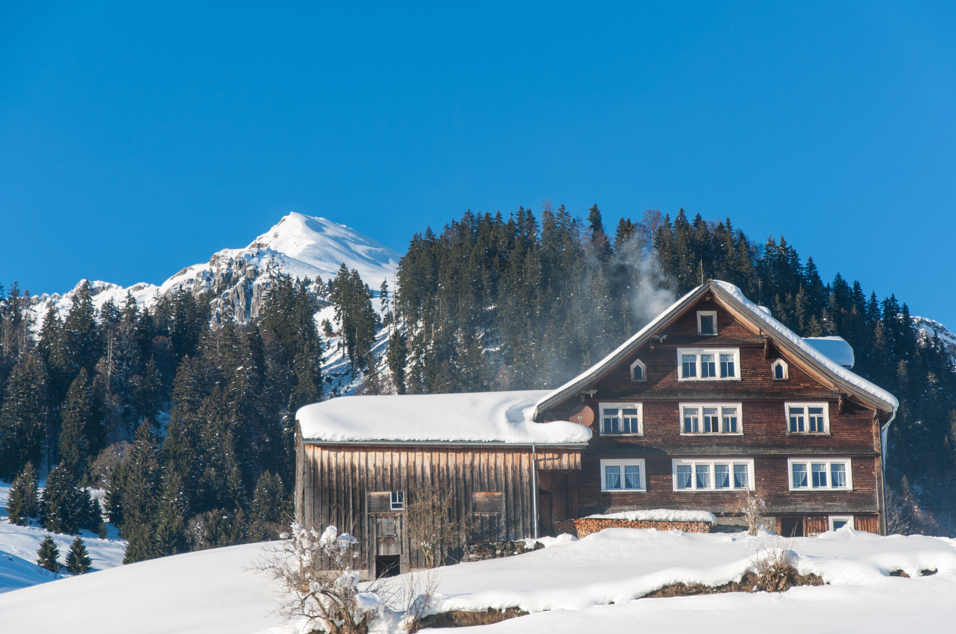 Switzerland, Canton of St. Gallen, late afternoon horse sled tour in Unterwasser